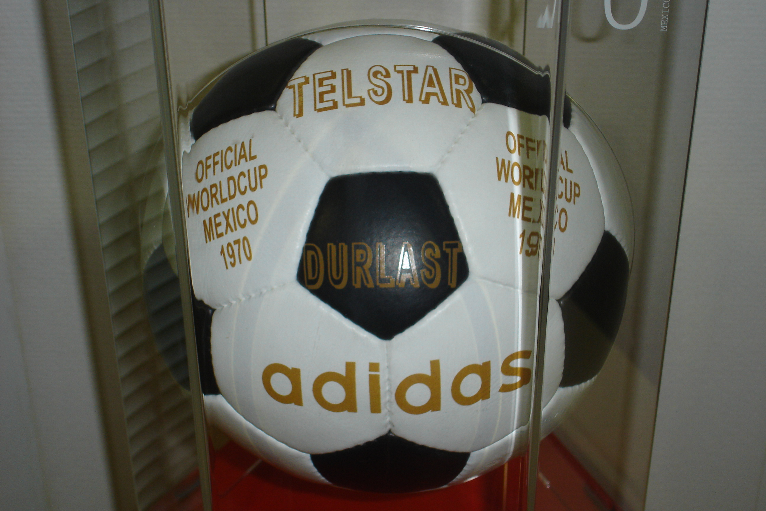 Telstar by Adidas - the official match ball of 1970 FIFA World Cup in Mexico